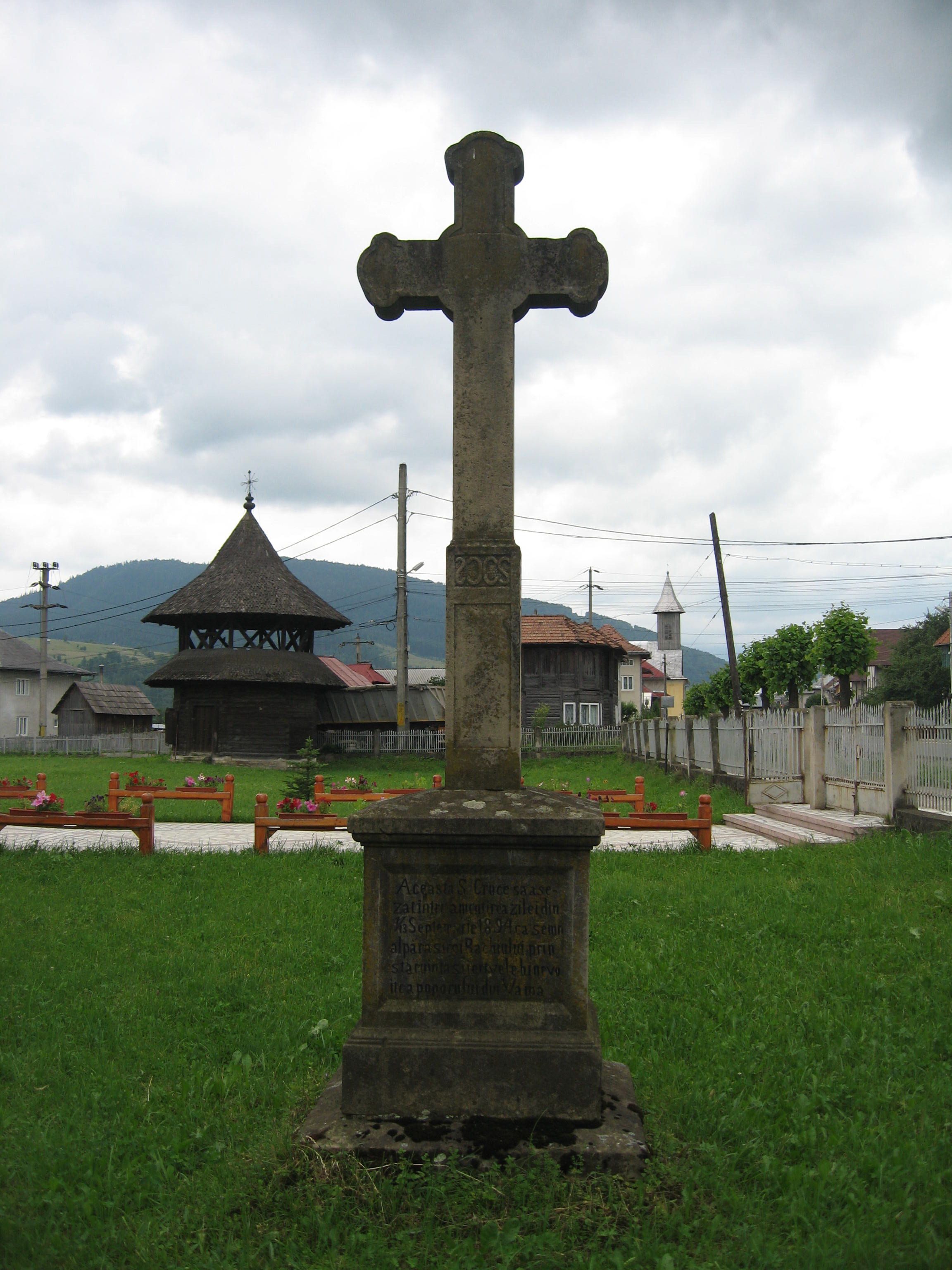 Crucea de jurământ a beţivilor din Vama